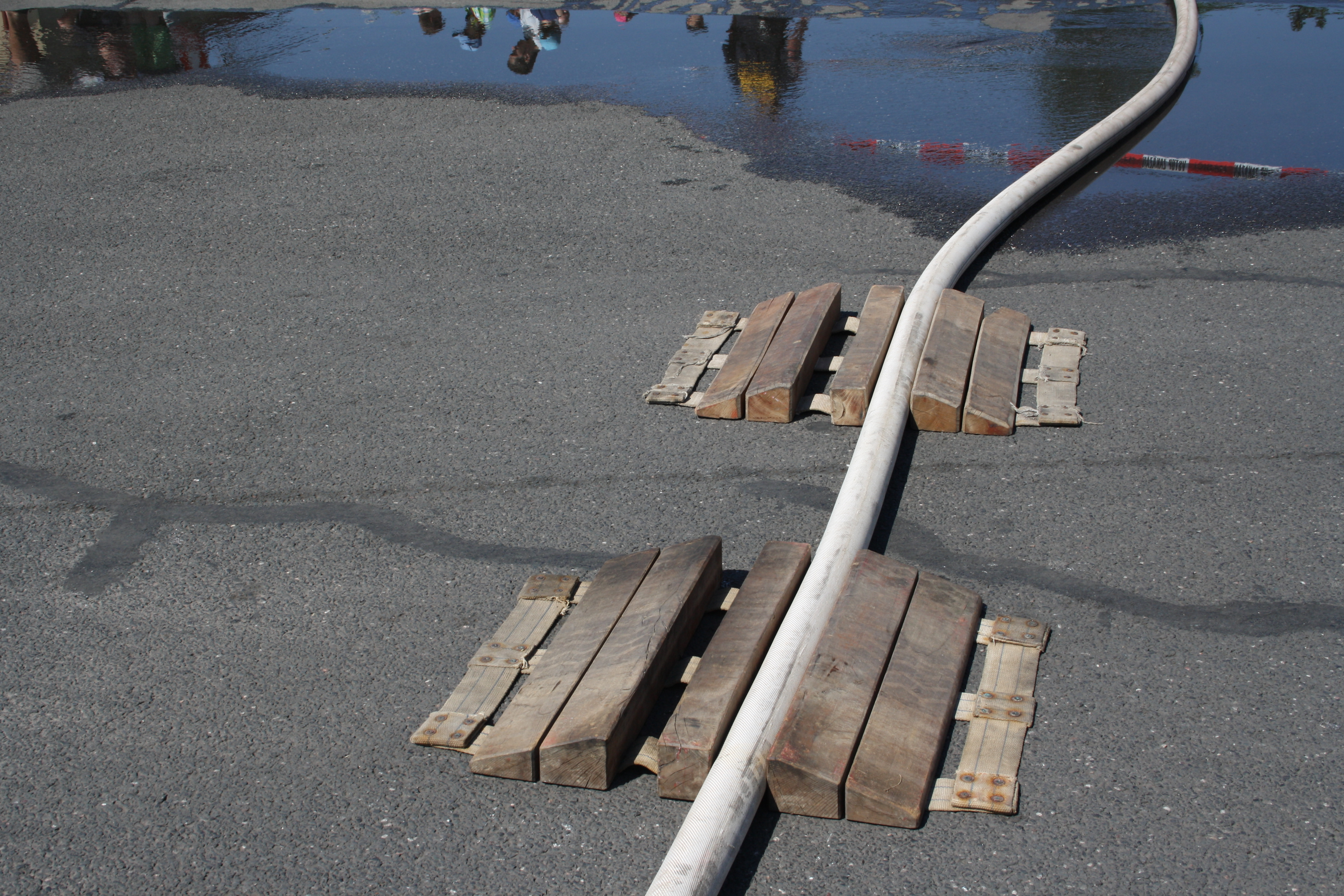 Wooden crossover for fire hose